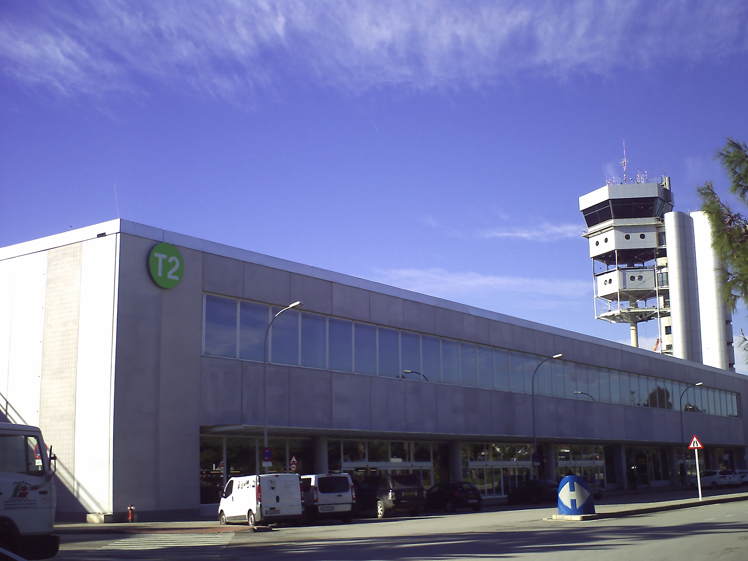 T-2 (Alicante Airport)